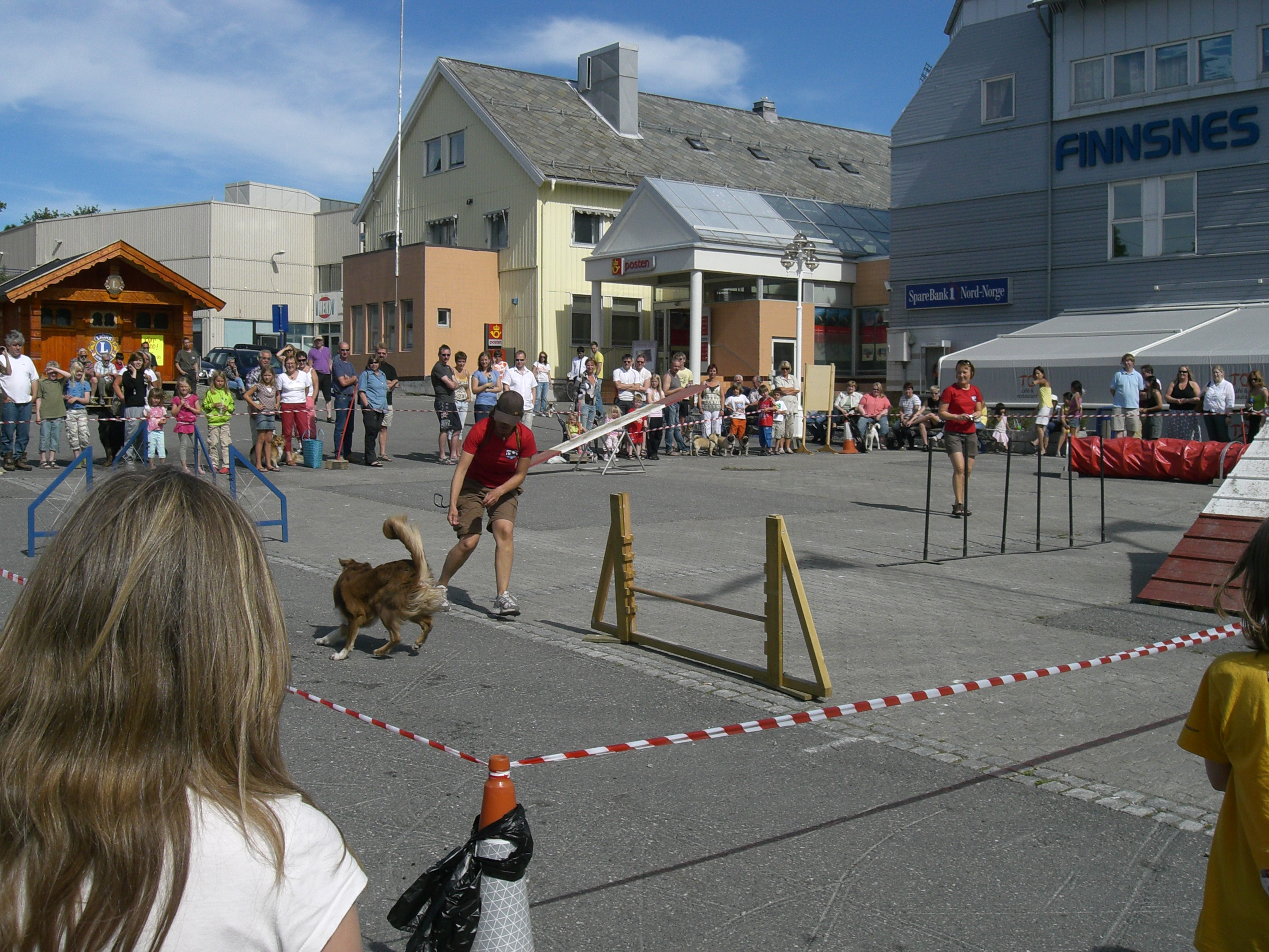 Finnsnes, administrative center of Lenvik, province of Troms, Norway. Summer 2007